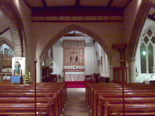 St Mary's parish church, Bishophill Junior, York: nave interior, looking east to the chancel